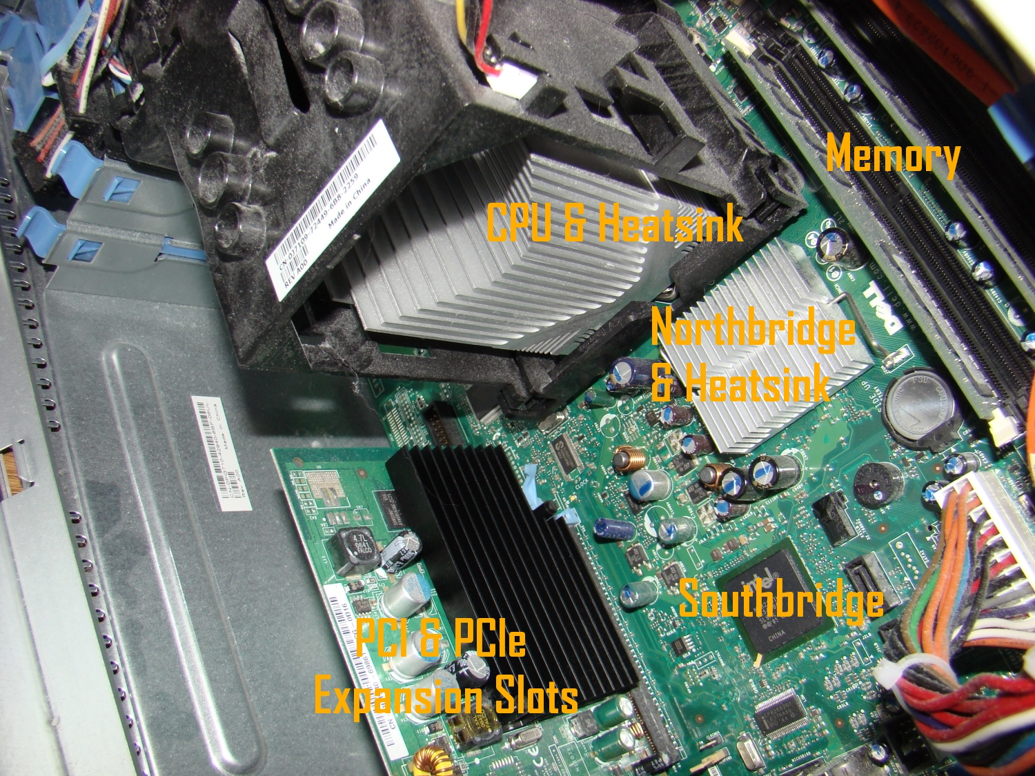 A Dell Dimension E520 with BTX form factor motherboard with key parts labeled.